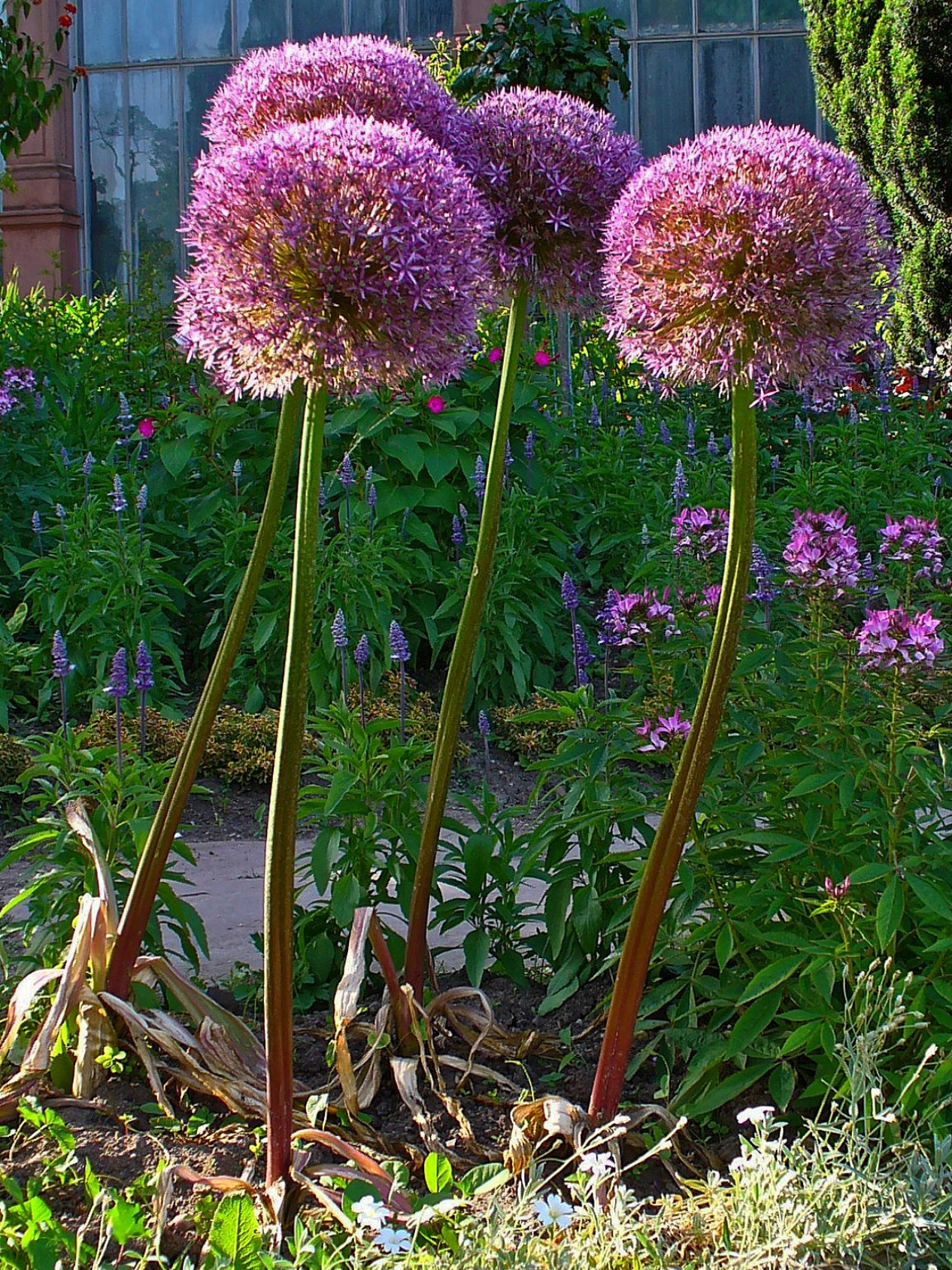 Allium giganteum, Alliaceae, Giant Onion, habitus. Botanical Garden Karlsruhe, Germany.